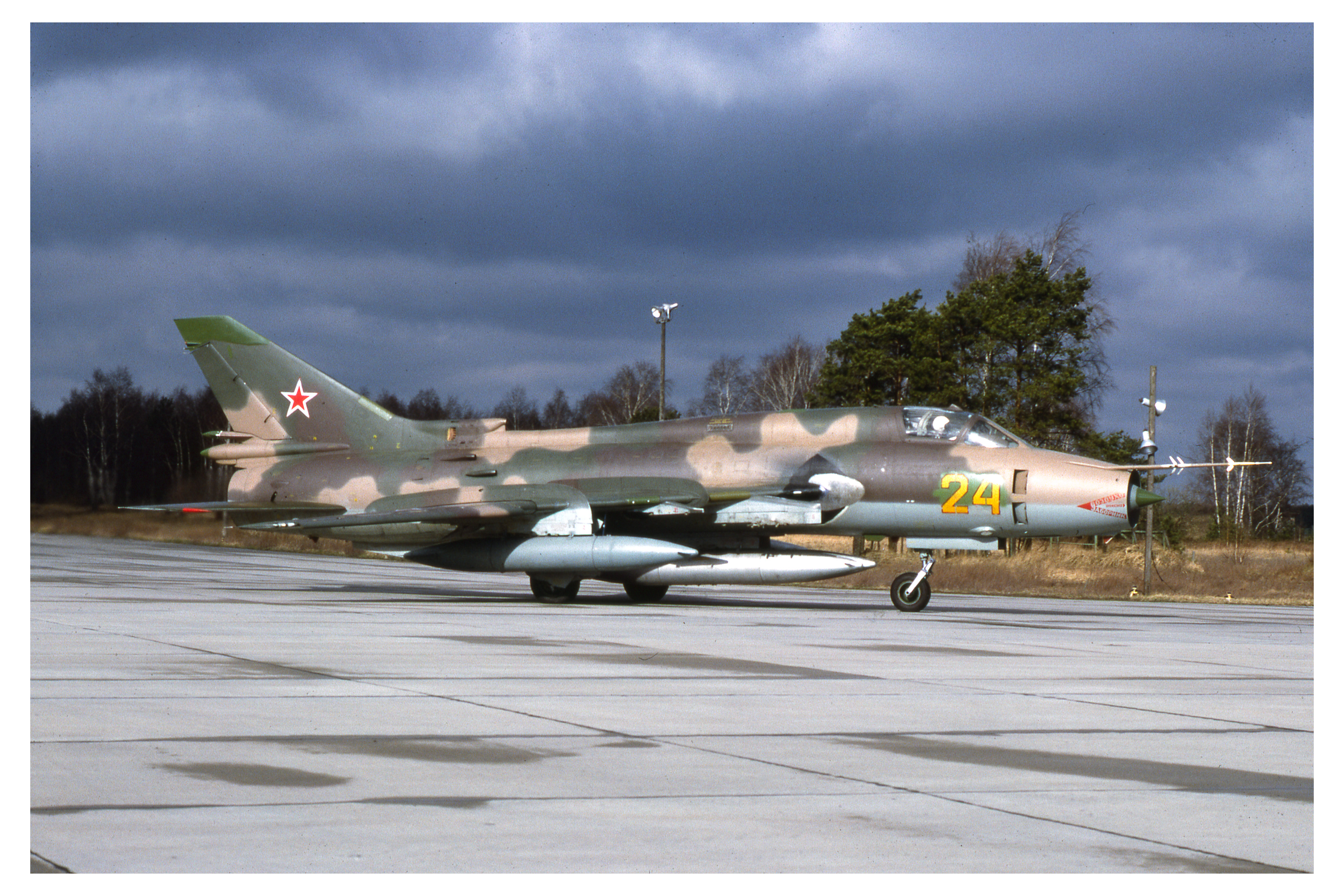 1989. Former East Germany.